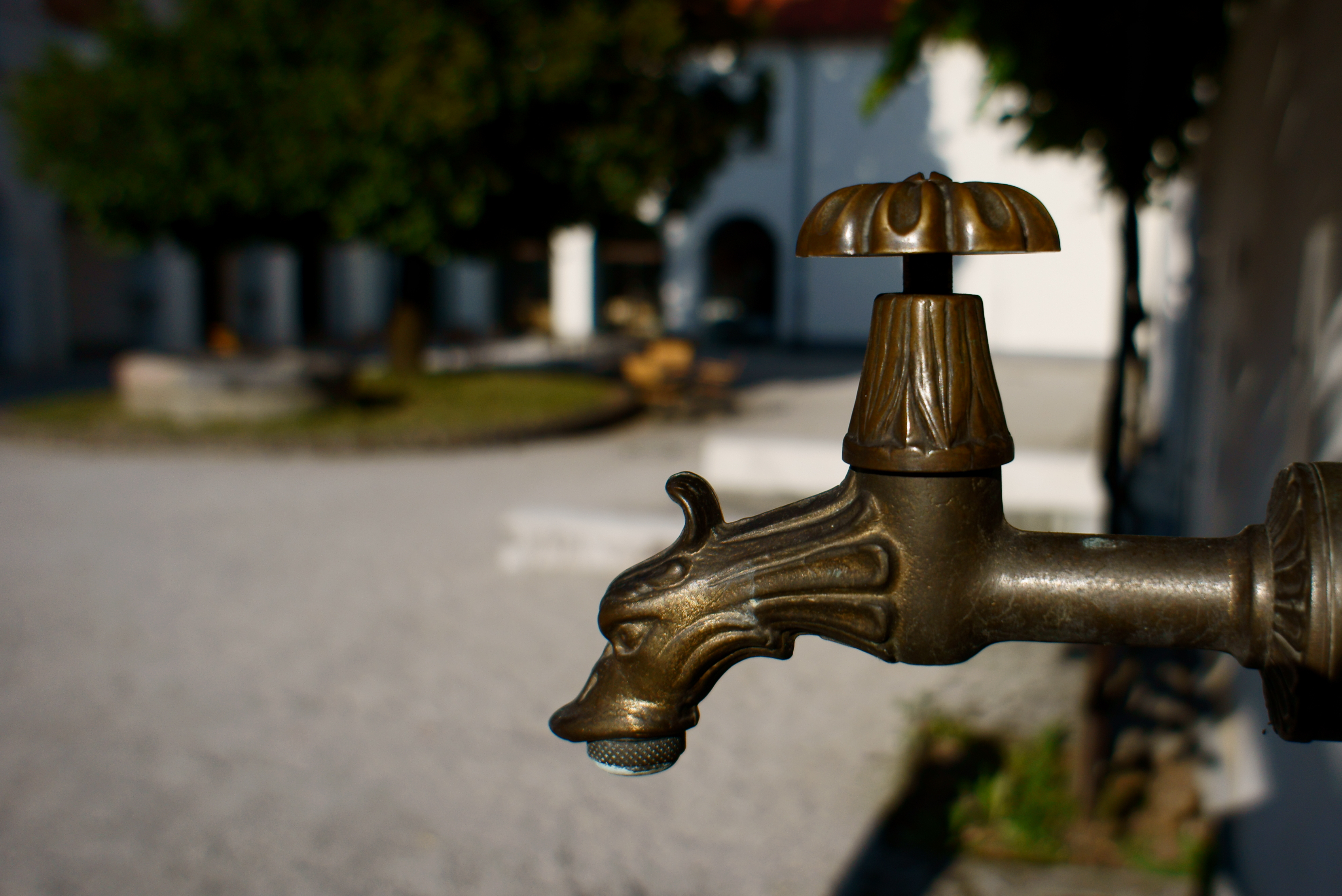 Metal engraved tap (valve) in Fužine castles yard, Ljubljana, Slovenia.